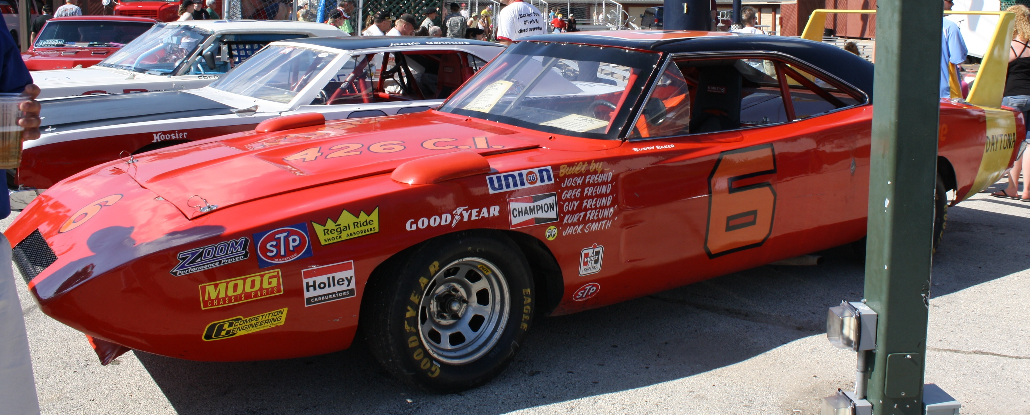 A replica or possible original 1969 Dodge Daytona driven by Buddy Baker.